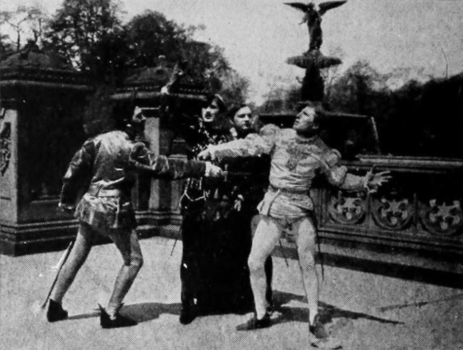 Tybalt and Mercutio duel. Romeo, with a mustache, is played by Paul Panzer